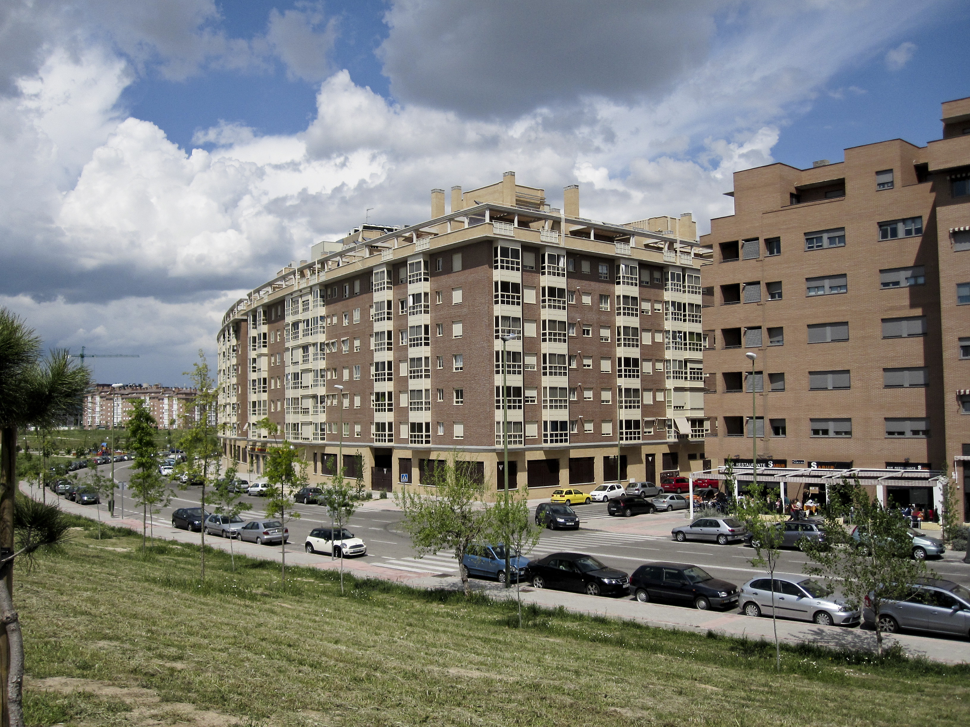 District "Las Tablas" in Fuencarral-El Pardo, Madrid. Spain. Santo Domingo de la Calzada.